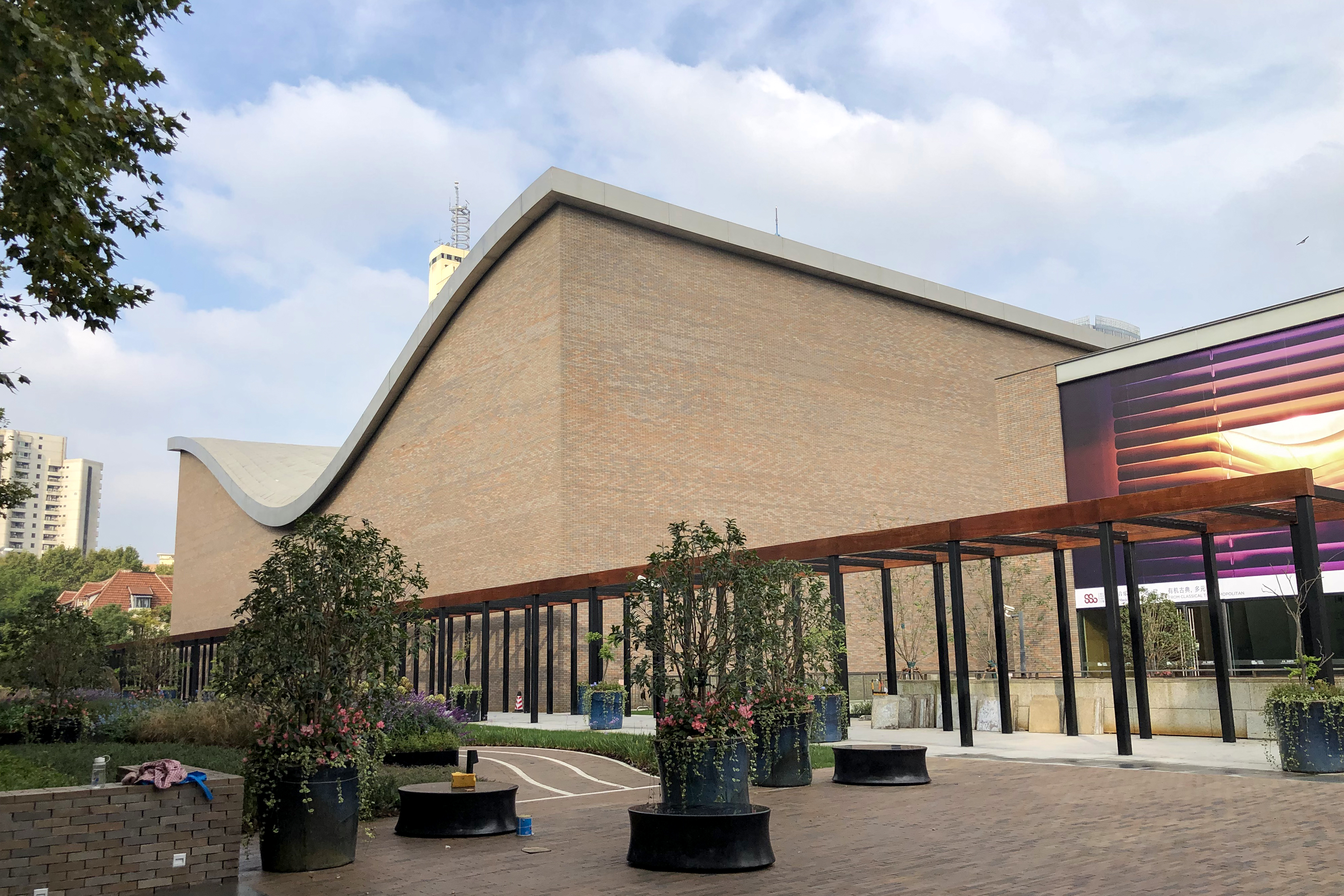 140th anniversary of SSO.